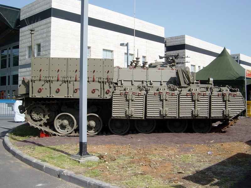 Nakpadon APC on LIC 2004 event